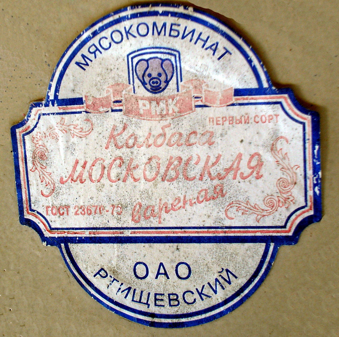 Rtishchevsky meat-packing plant. The label